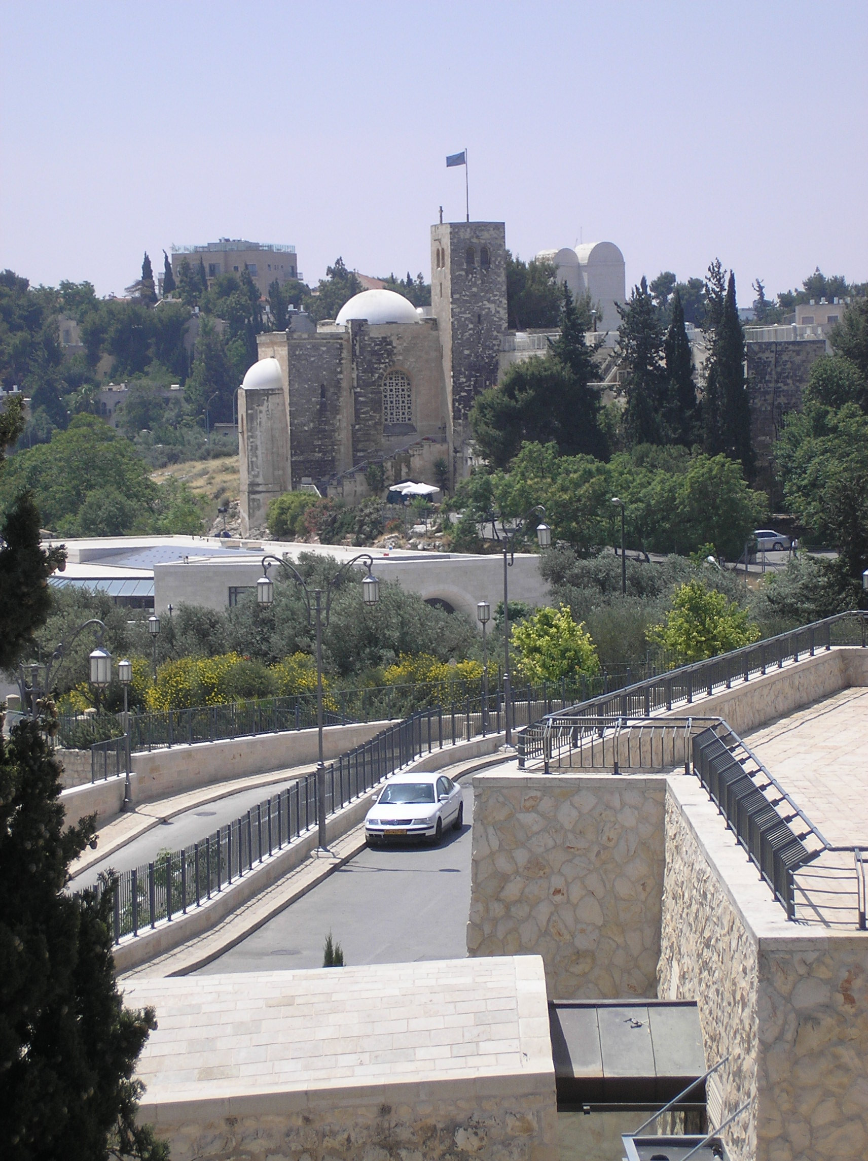 The Scottish Church - view from Mishkenot Sha'ananim